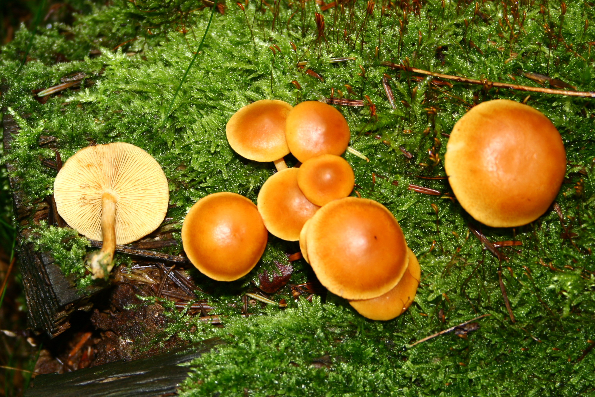 Gymnopilus penetrans in a wood near Baden Baden, Germany.